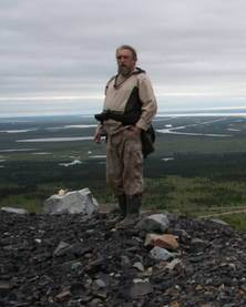 Sergei Zimov